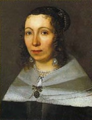 Portrait of Maria Sibylla Merian (1647-1717)